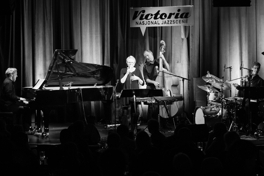 Elin Rosseland at Victoria Teater. The concert took place on 13. September 2019 in Oslo. Lineup:Elin Rosseland (vocal)Helge Lien (grand piano)Johannes Eick (double bass)Knut Aalefjær (drums and percussion)